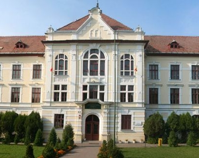 Colegiul National Unirea, Tirgu-Mures